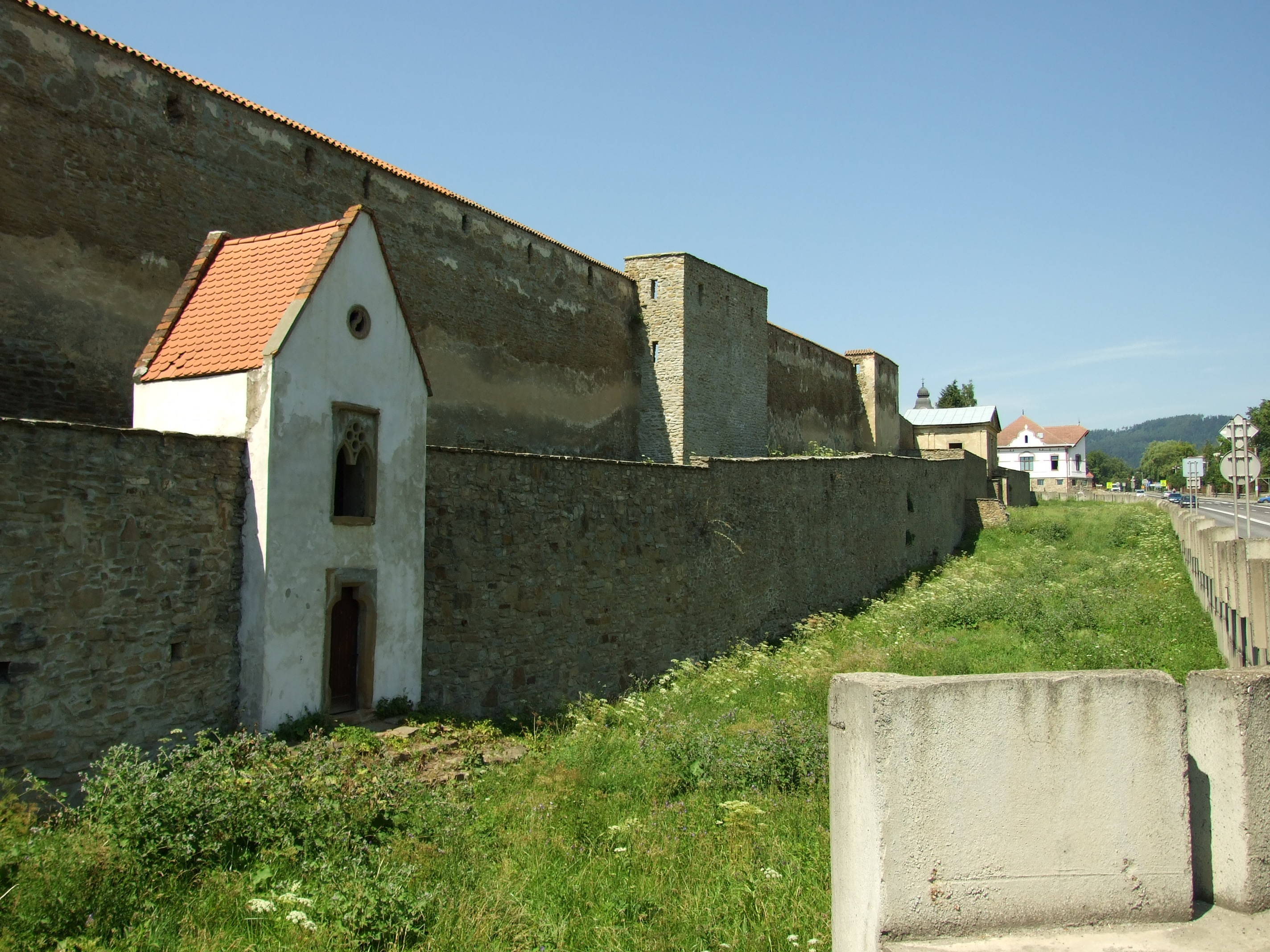 Fortification of Levoča town centre, Prešov Region, SKhelp